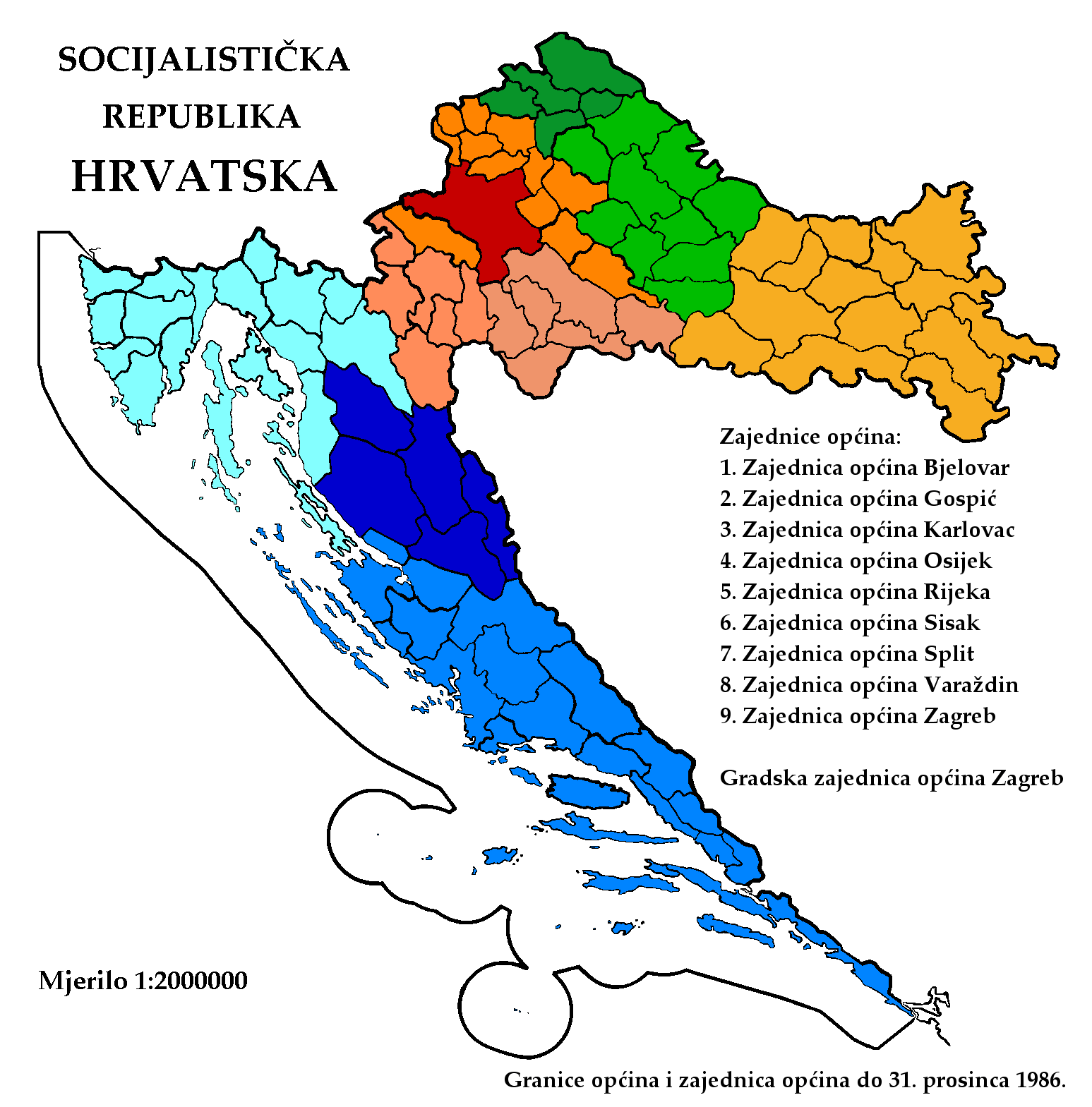 Associations of municipalities of the Socialist Republic of Croatia from 1974-02-22 to 1986-12-31